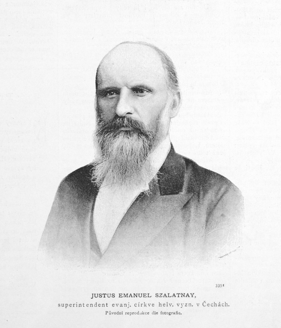 Portrait of Justus Emanuel Szalatnay (1834-1910), Czech protestant priecher of Hungarian origin.